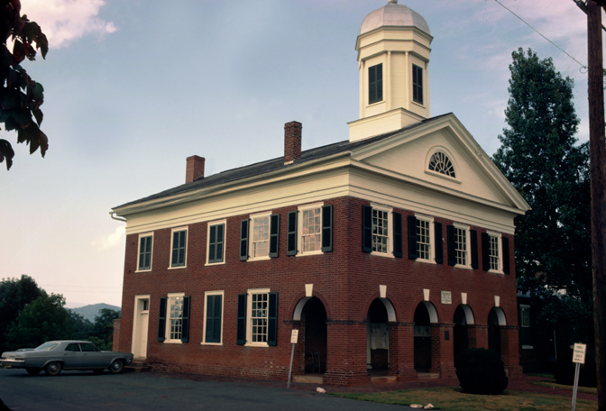 Madison County Courthouse (Built 1829), Madison, Virginia This image or file is a work of a United States Department of Agriculture employee, taken or made as part of that person's official duties. As a work of the U.S. federal government, the image is in the public domain. Object location38° 22′ 37″ N, 78° 15′ 39″ W